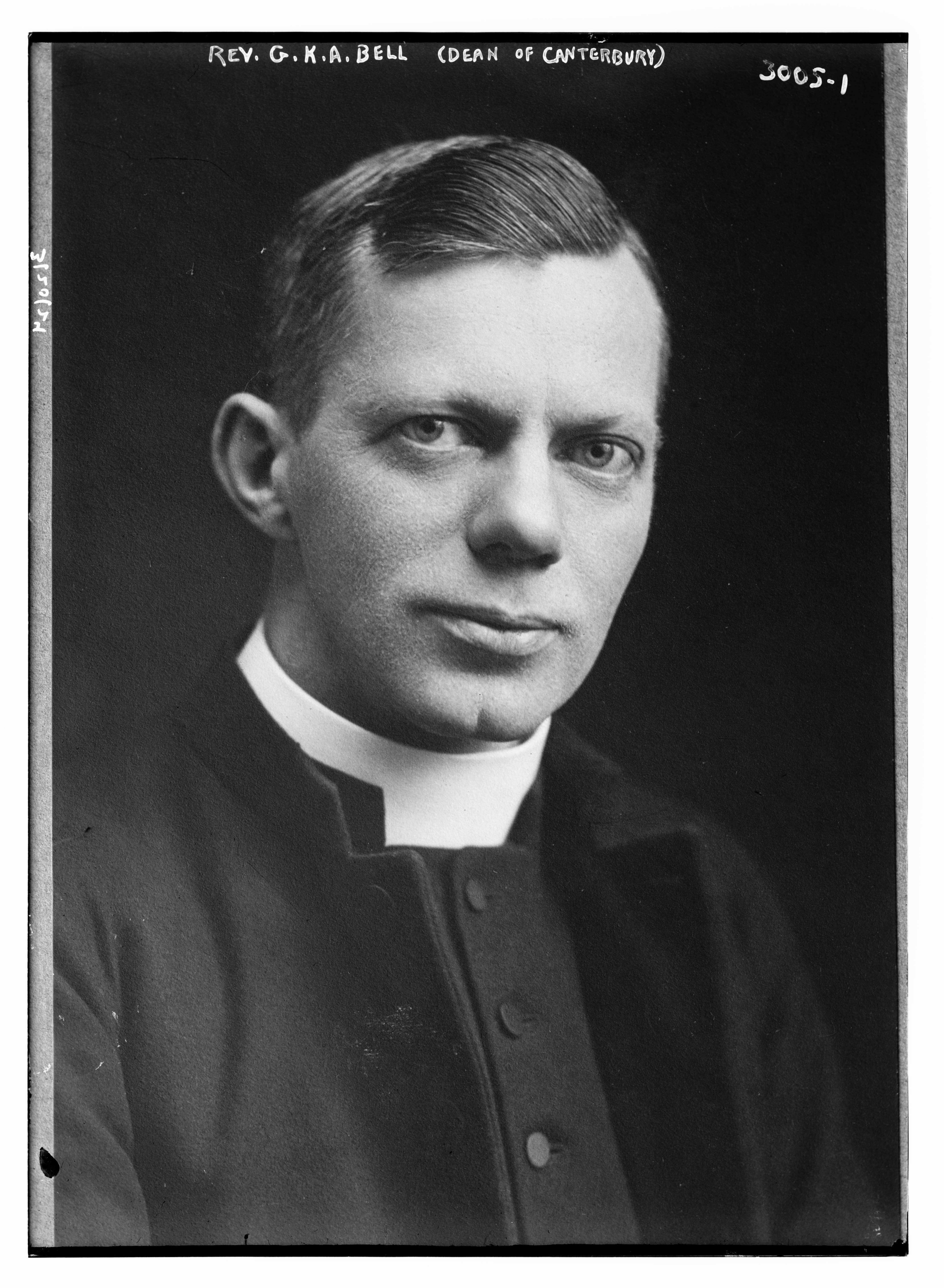 Title: Rev. G. K. A. Bell (Dean of Canterbury) Abstract/medium: 1 negative : glass ; 5 x 7 in. or smaller.